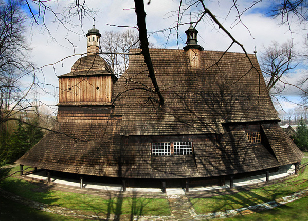 Church of St. Phillip and St. Jacob in Sękowa, from 1520. World Heritage site.